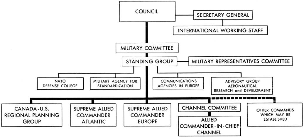 1952 organizational chart of the North Atlantic Treaty Organization (NATO).